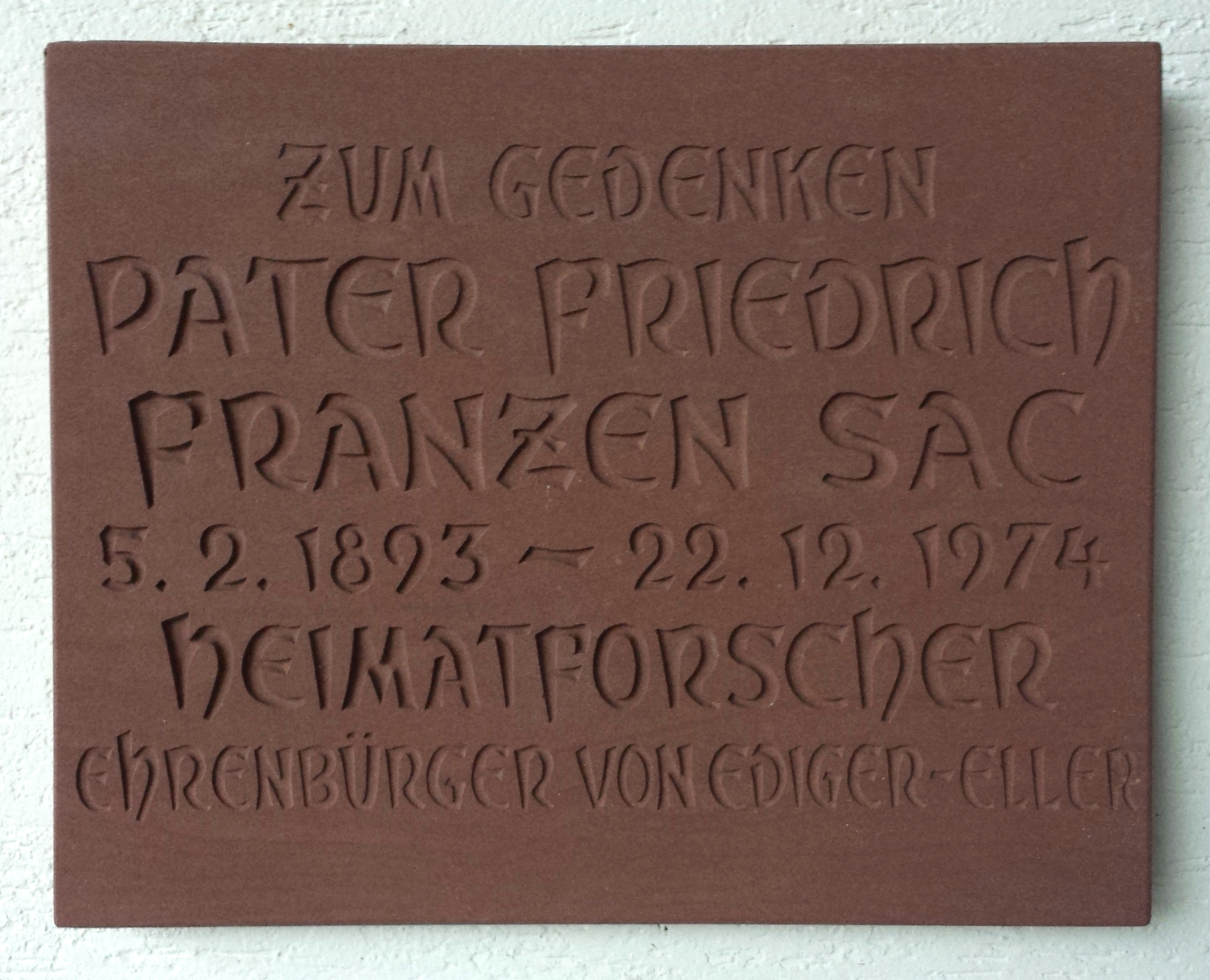 Plaque of honour for Father Friedrich Franzen SAC (1893-1974) Honorary citizen of Ediger-Eller